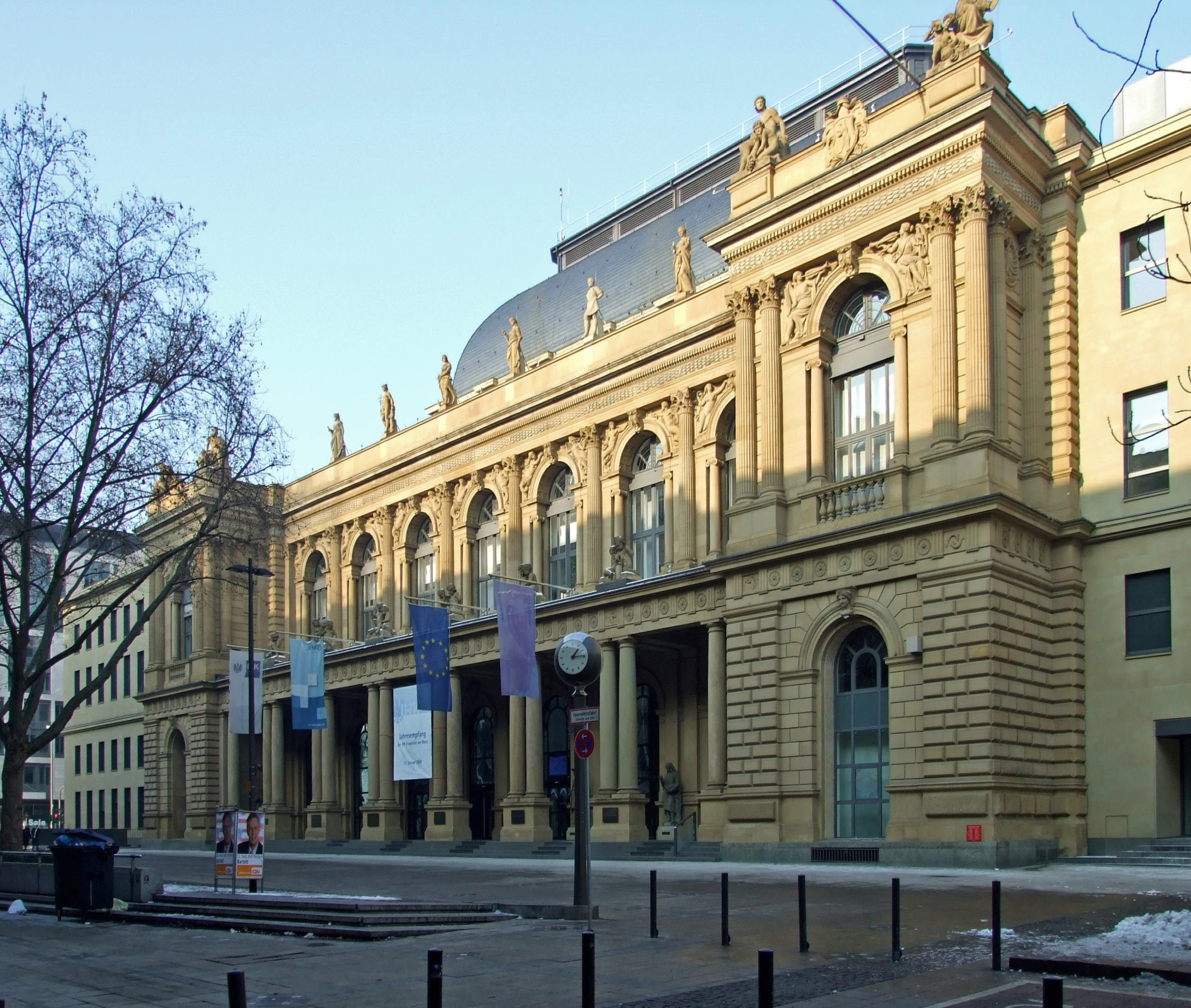 Frankfurt Stock Exchange